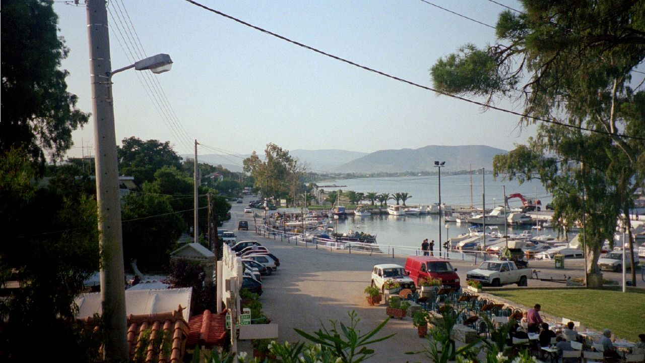 Nea Makri (Greek: Νέα Μάκρη), also Nea Makris is a town located in the northeastern part of Attica and the peninsula.